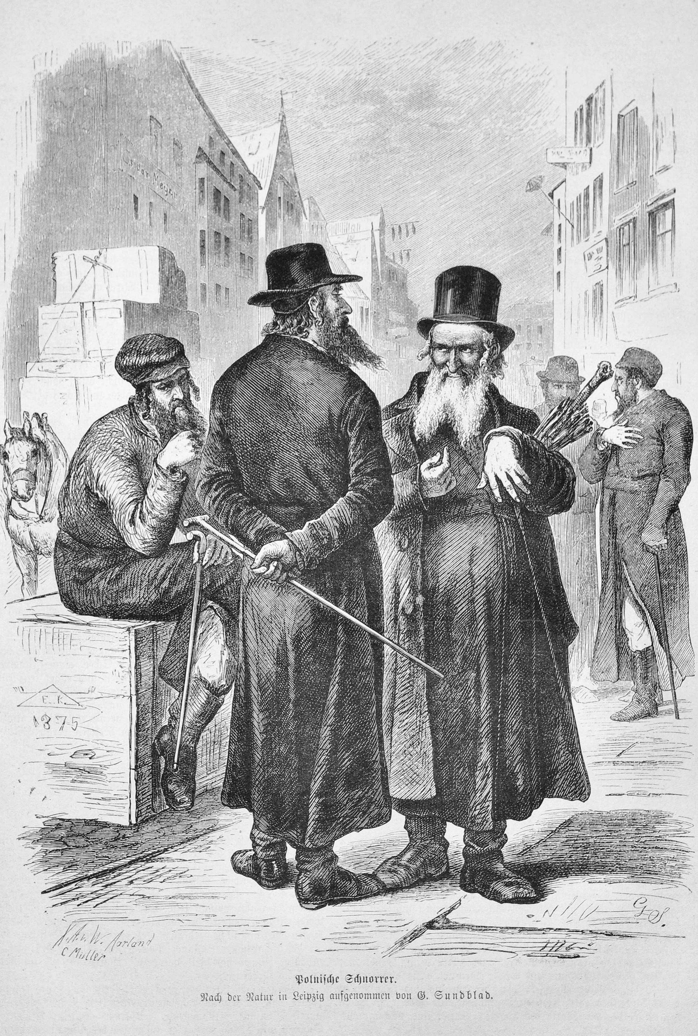 caption: "Polnische Schnorrer. Nach der Natur in Leipzig aufgenommen von G. Sundblad."